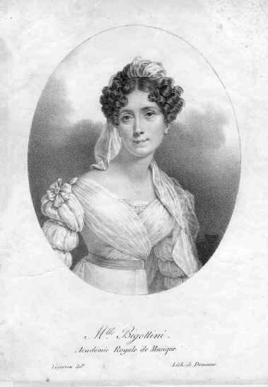 Description: Émilie Bigottini. Gravure by Demanne according to a portrait of Vigneron (c. 1810).